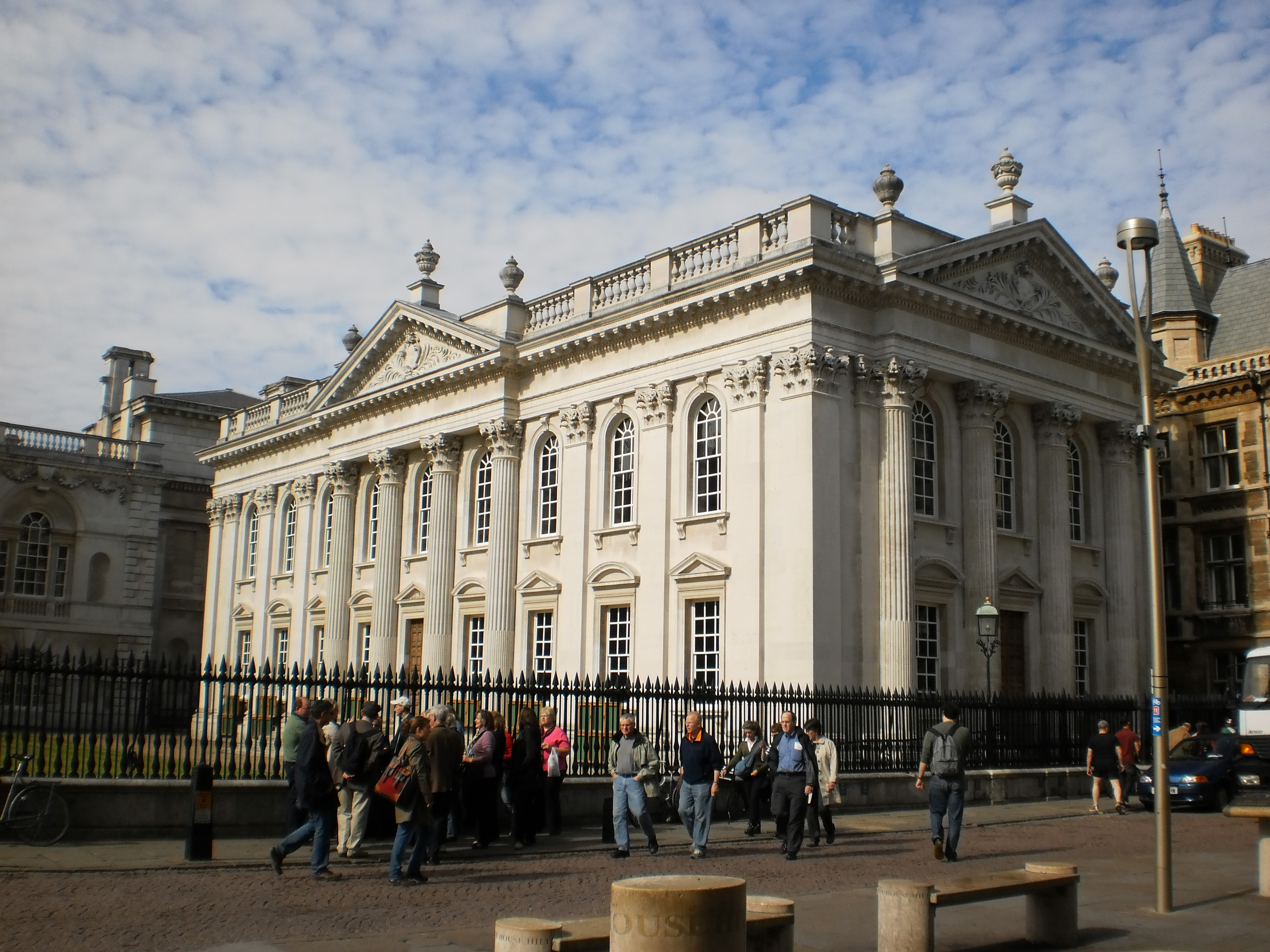 Senate House in Cambridge, England